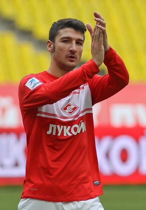 Salvatore Bocchetti with FC Spartak Moscow in 2013.